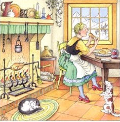 Illustration of Clever Gretel from 'Grimm's Fairy Tales' (1920)